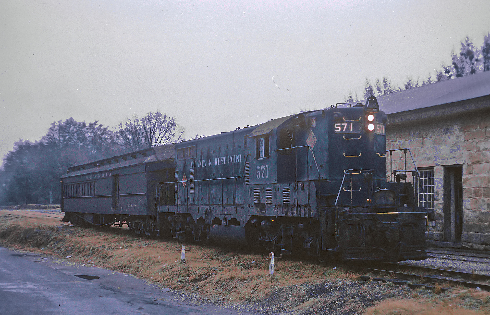 Atlanta & West Point GP7 571 with a Georgia RR mixed stopped at Crawford, GA station on November 24, 1967 with only a Georgia RR combine (no freight cars). A blue hour shot. A Roger Puta Photograph